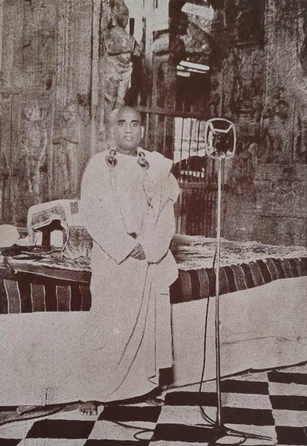 Swami Vipulananda (1892 – July 20, 1947) during Tri-Tamil conference in Madurai on 1 Aug 1942